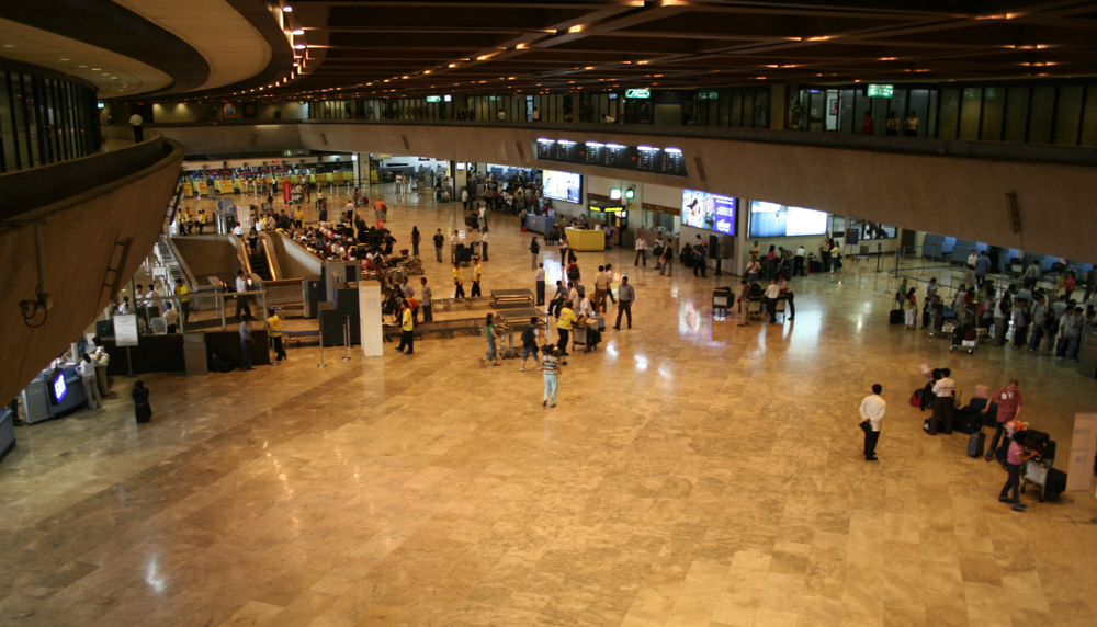 Photo of the departure area at the Ninoy Aquino International Airport Terminal 1 by John Paul Solis on 16 June 2005 for public domain use on Wikipedia. Kapampangan: Danggut 1 Pamaglakong Bulwagan